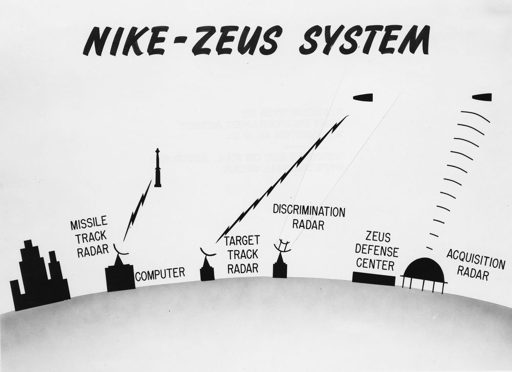 US Army illustration showing the basic operation of the Nike Zeus system. The illustration shows the various parts being separated by what looks like long distances, but in a deployment they would be located over an area of about 200 acres.